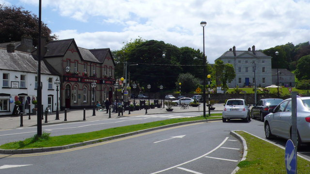 Crosshaven, Co. Cork Crosshaven Village Square, Co. Cork